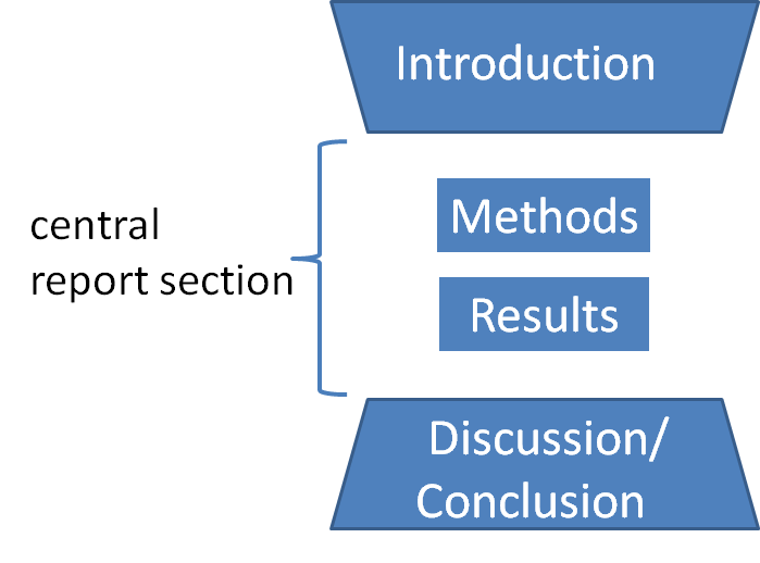 Wineglass model for IMRaD structure. It schematically shows how to line up the information in IMRaD writing. The flow of the story and logical development of research article or thesis having IMRaD structure are schematically explained by wineglass model. Shape of the wineglass model is as abovementioned diagram, is characterized by "vertically symmetrical" and "narrows toward from top to center and widens after it". The vertically symmetrical shape represents the symmetry of the flow of the story, topics mentioned in the Introduction part are again picked up in the Discussion/Conclusion in reverse order. The width of the diagram which narrows toward from top to center and widens after it represents the focusing of the story. The change of the width of above diagram represents the change of generality.The story start out from the "Introduction part " by being fairly general and the focus of the story gradually narrowed, whereas the opposite is true in the Discussion/Conclusion. Here, IMRaD is an acronym for introduction, methods, results, and discussion. For more information, please refer to [1].